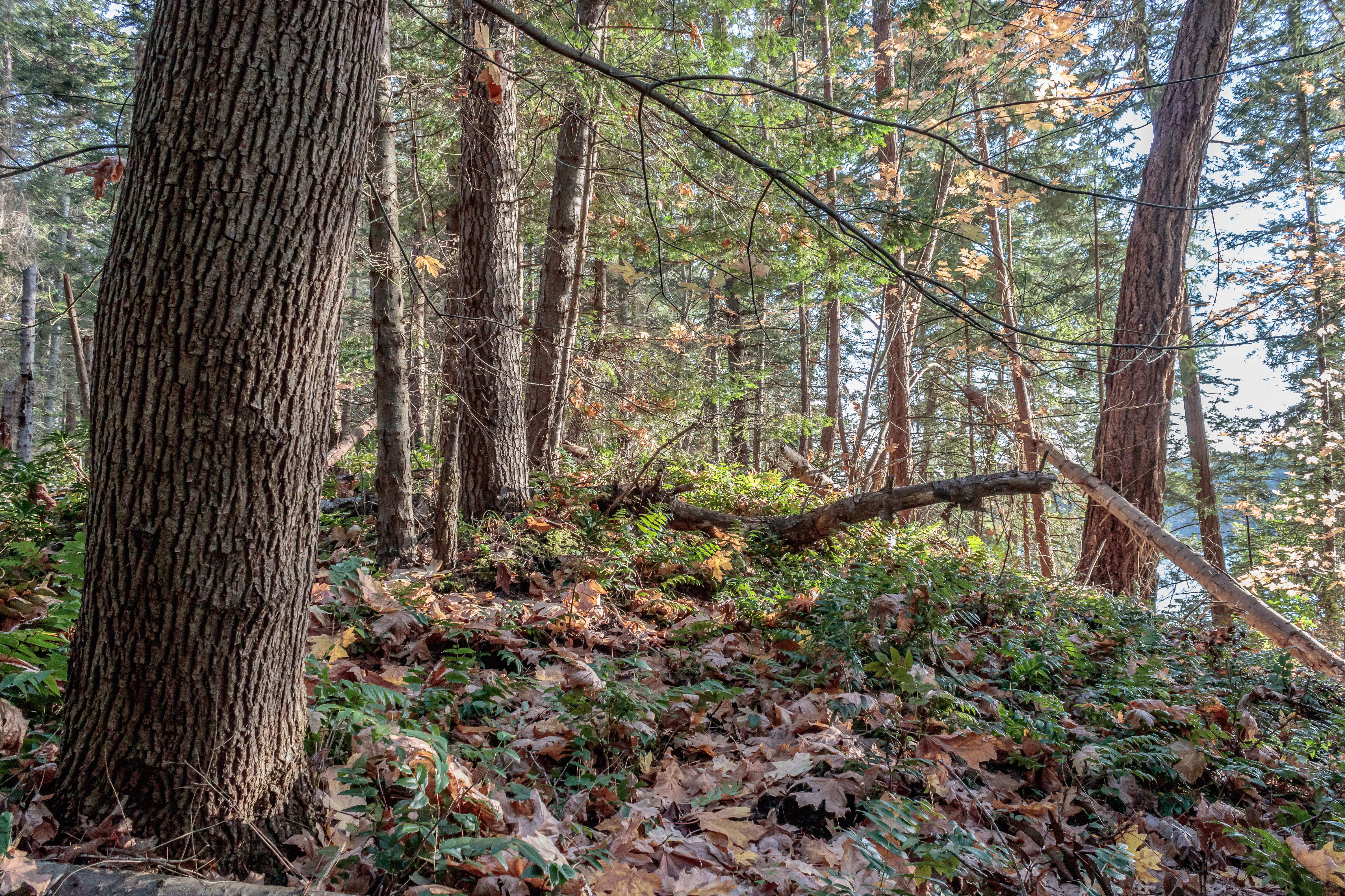 Mixed temperate forest on a hillside by the sea in autumn, at Drumbeg Provincial Park, Gabriola Island, British Columbia, Canada. The predominant trees in the photo are Douglas fir, with Bigleaf maple trees throughout. Fallen maple leaves partially cover the Oregon grape (Mahonia) on the forest floor.